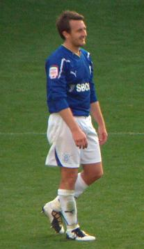 11/09/10 Cardiff V Hull City, Football League Championship, Cardiff City Stadium, Cardiff, Wales